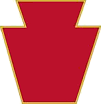 28th Infantry Division CSIB